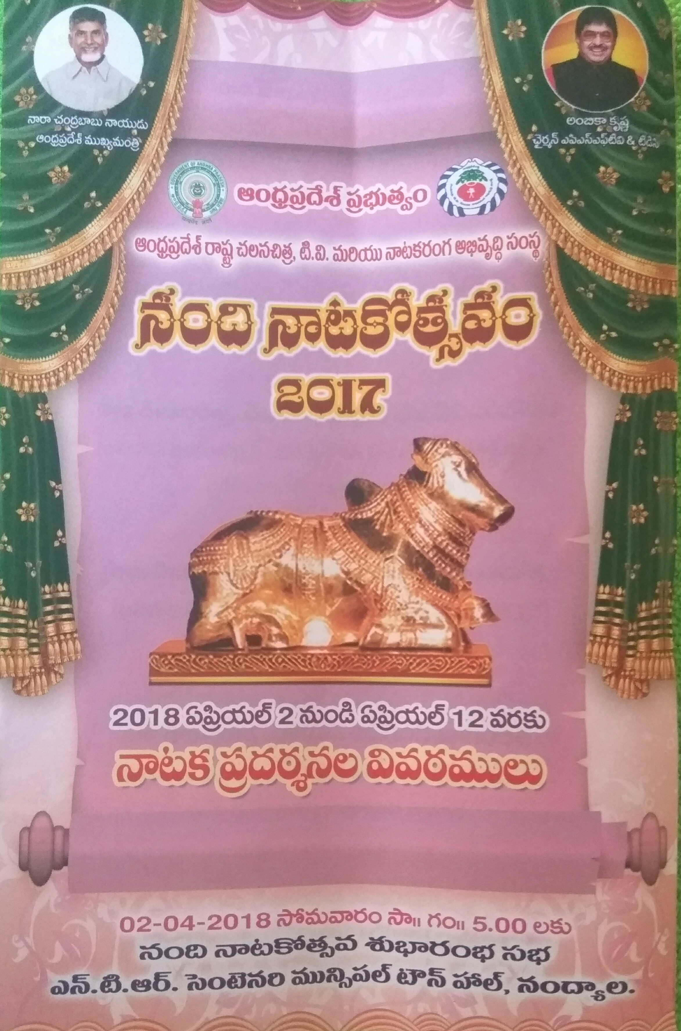 Booklet of 2017 Nandi Theatre Festival performances in Nandyala